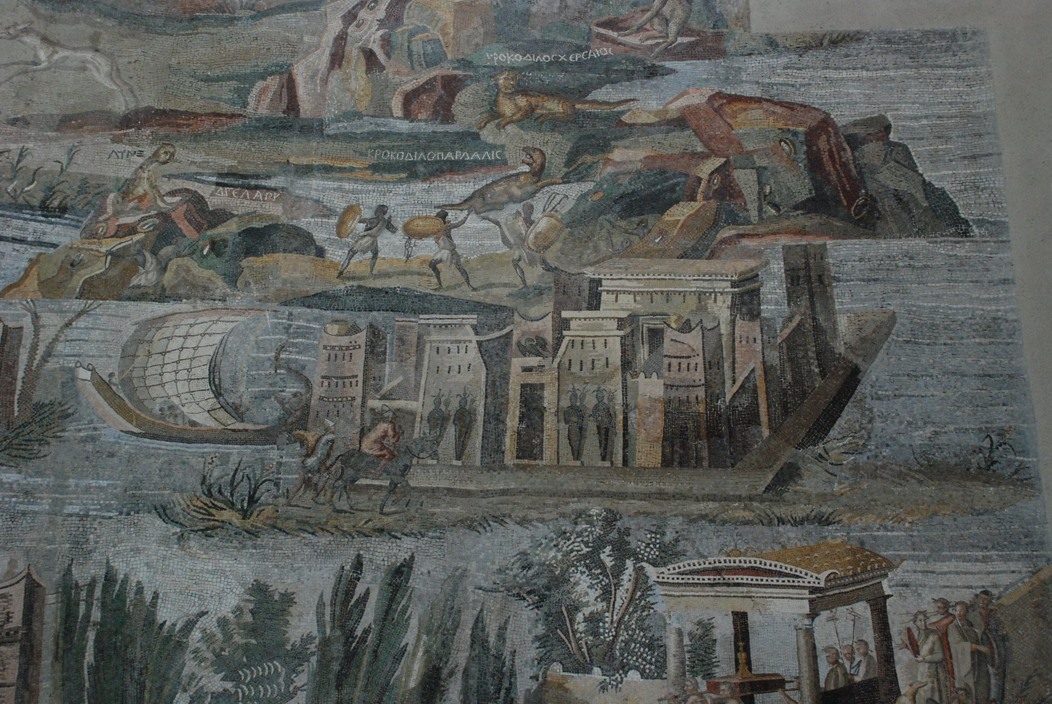 Detail of the Nile mosaic at the National Archeological Museum of Palestrina